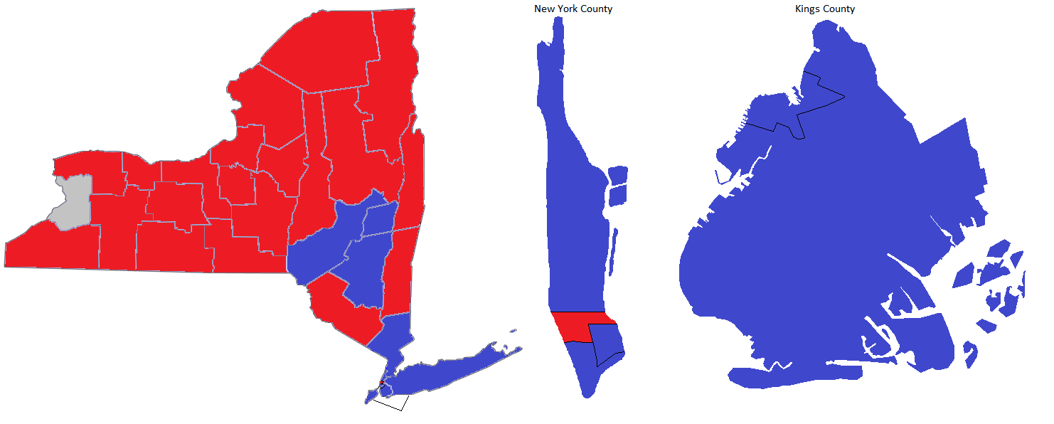 Partisan composition of the New York Senate after January 17, 1865. Red is Republican and Blue is Democrat. James Humphrey's seat in Erie County was vacated as he was elected to the U.S. Congress.